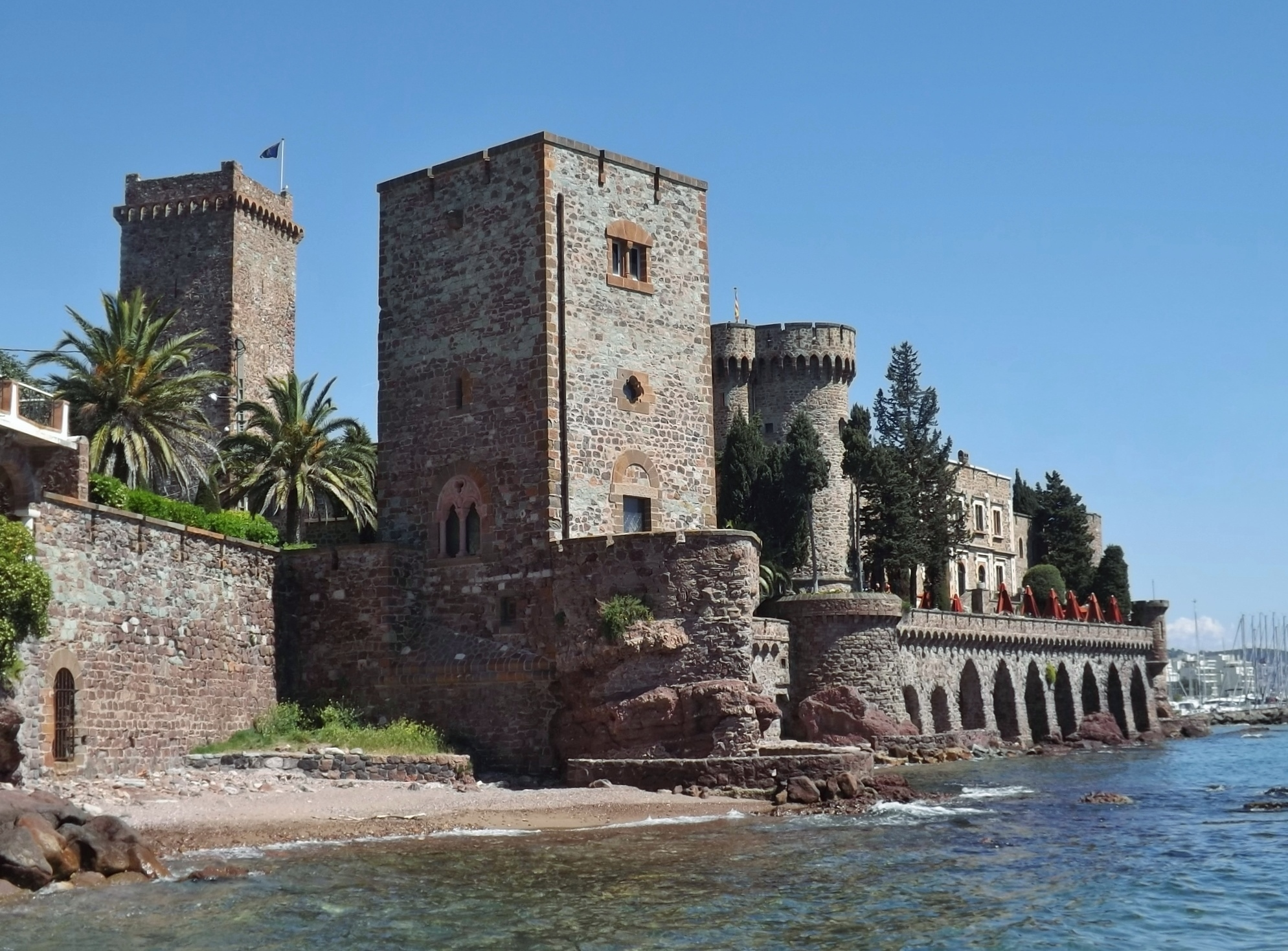 Sight of the château de la Napoule castle, in Mandelieu-la-Napoule near Cannes on the French Riviera, in Alpes-Maritimes.